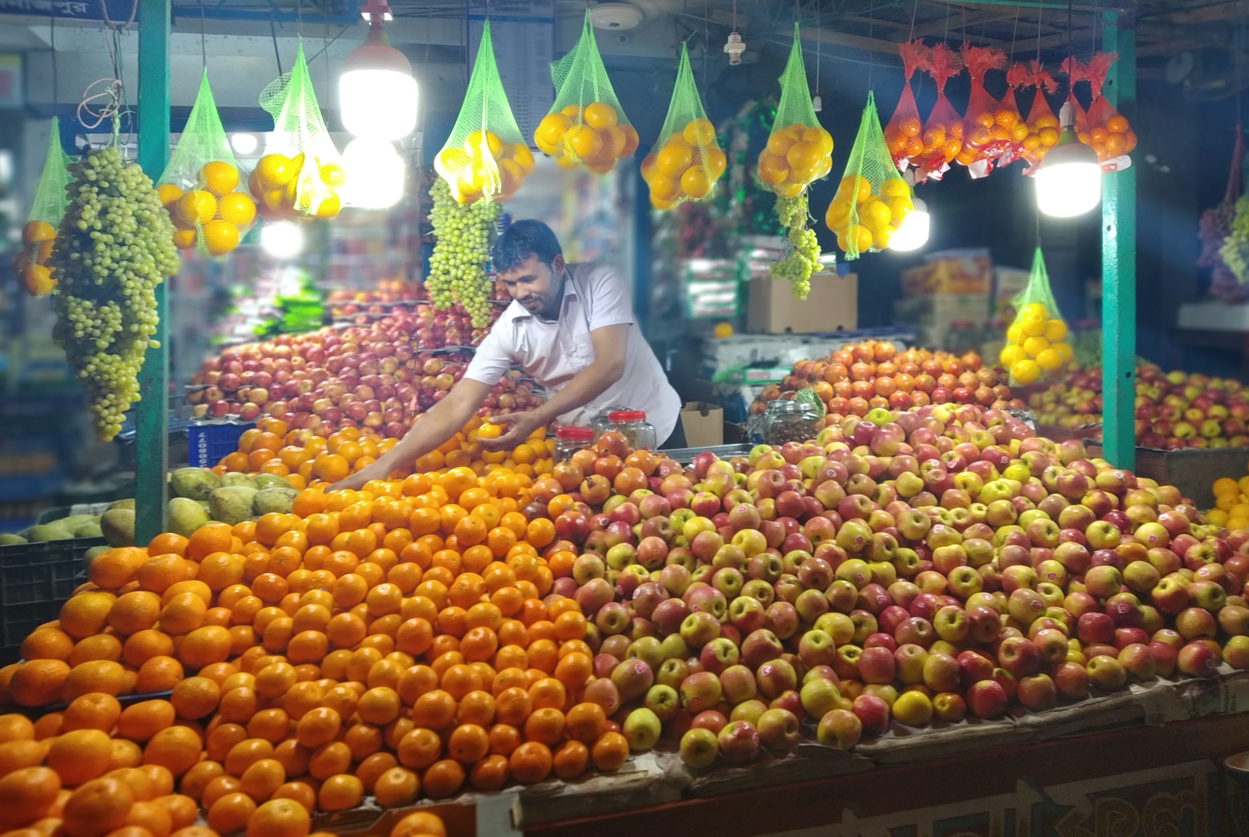 A seasonal fruit seller of typical bangladesh.